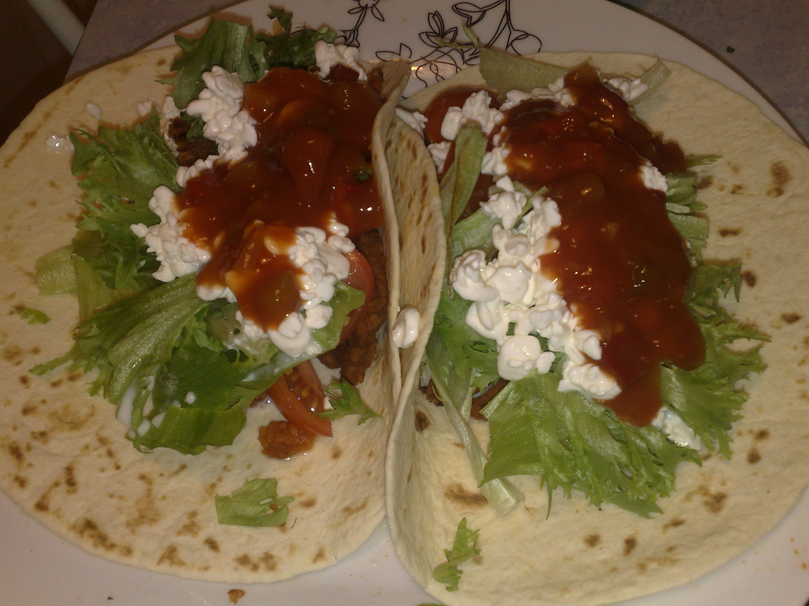 My favourite food for those moments when you need something quick, preserving, healthy and nommy. Tortillas with $protein fried with taco spices, tomatoes, lettuce, cottage cheese and salsa. OM NOMNOM This time $protein was textured vegetable protein; unflavored soy strips soaked in veggie stock, and a featuring a guest star - fried carrot.